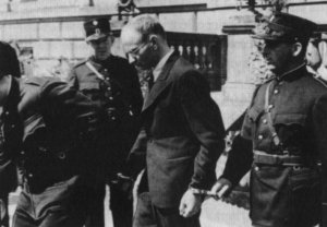 Paul Irniger during his trial in Zug, Switzerland